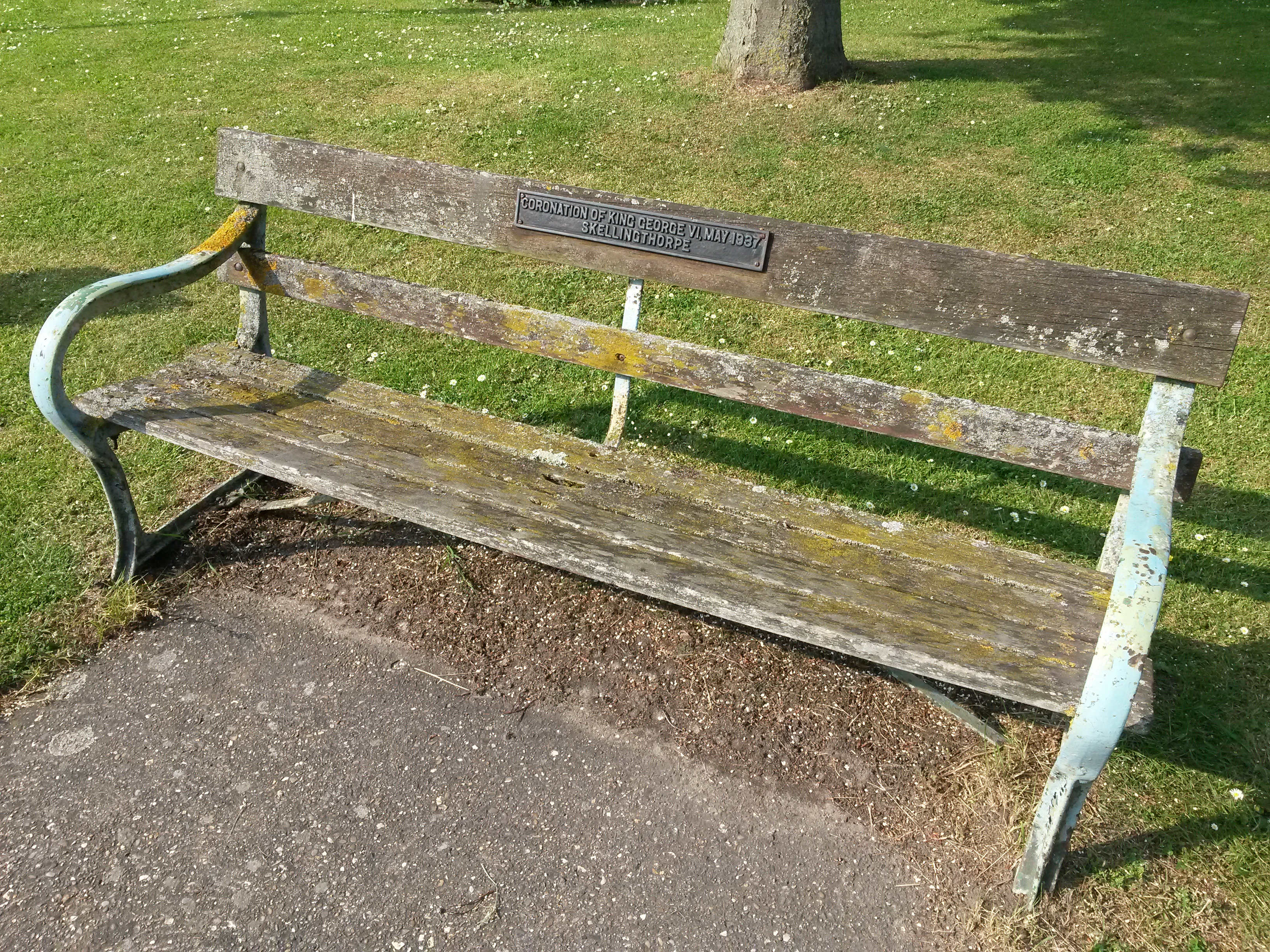 A bench on Lower Church Road, Skellingthorpe, that was established in 1937. (Photo taken June 2016)